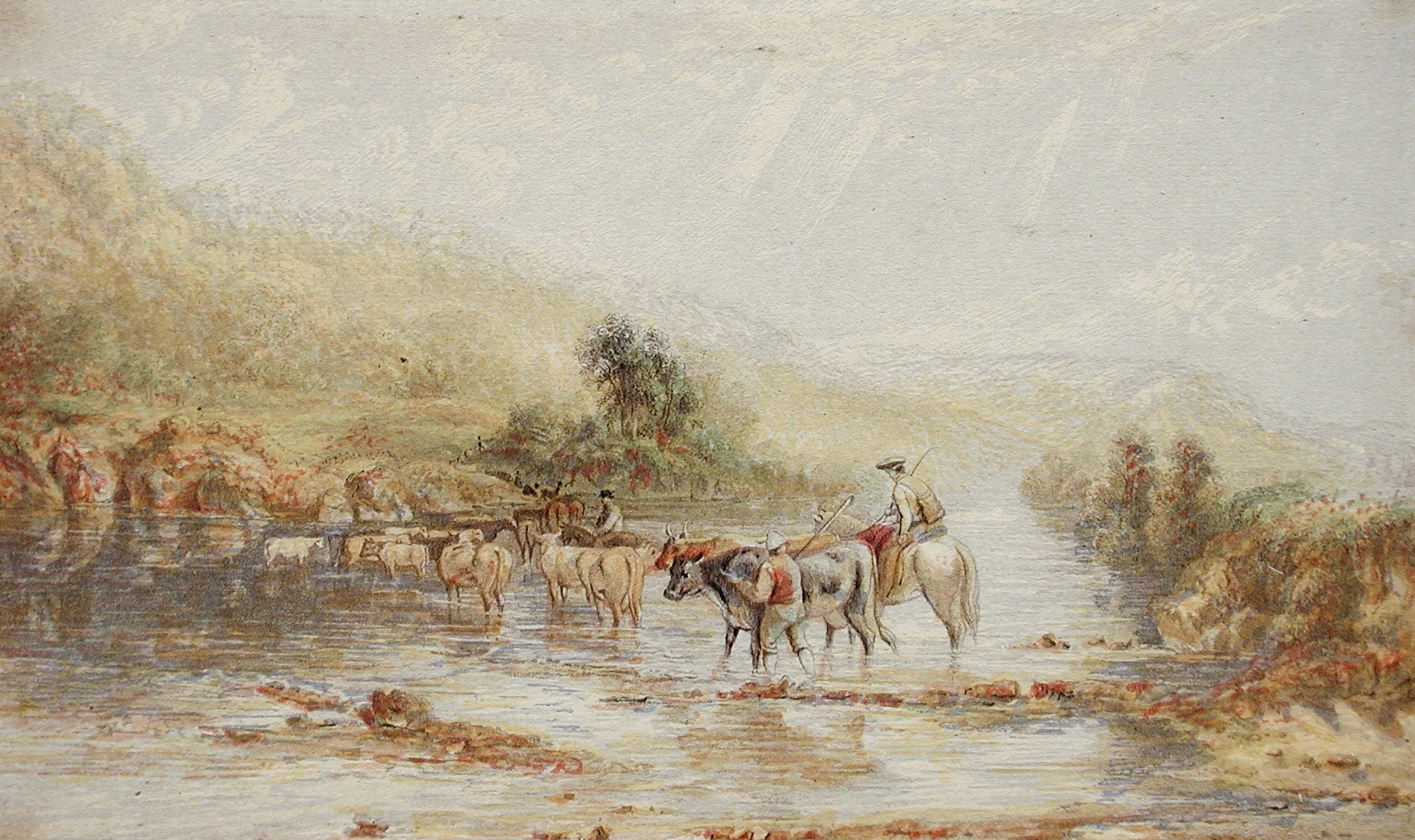 England, published circa 1850 Prints Color print in oils Gift of Mrs. Lottie V. Behrens (57.16.7) Prints and Drawings